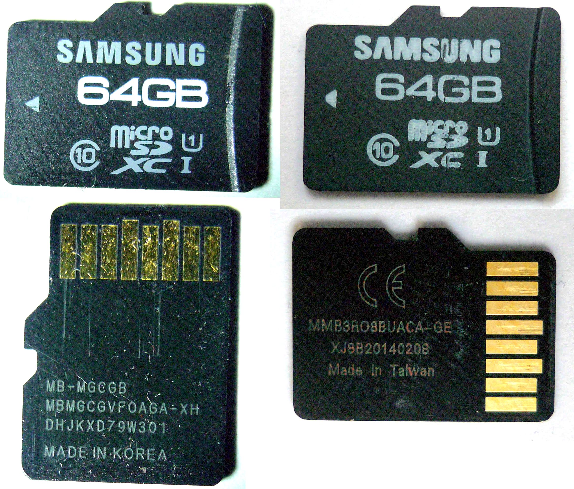 Samsung Pro 64GB micro-SDXC (MB-MGCGB) original (left) and falsification (right) front and back. The fake is an 8GB SDHC (Class 4 speed) which announces 67GB free, but only 8GB are useable: else data-losses occur. It is also used for Sandisk 64GB microSDXC fakes.